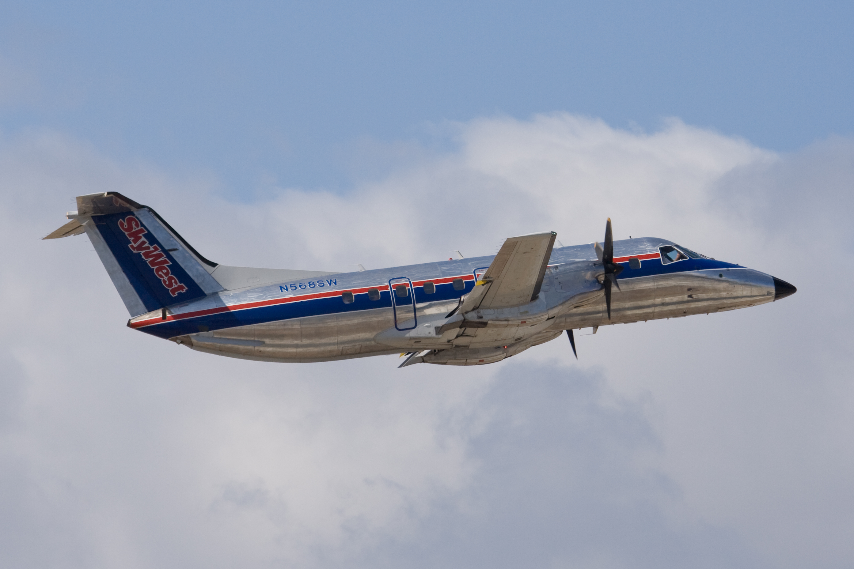 A SkyWest Embraer EMB-120 (N568SW) taking off from San Jose International Airport